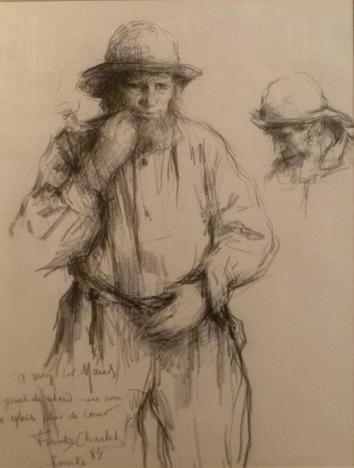 "The Fisherman" (1885), drawing (53 x 40 cm) by the Belgian painter Frantz Charlet; Musée d'Ixelles (Belgium)